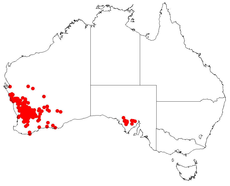 Velleia cycnopotamica Occurrence data downloaded from Australasian Virtual Herbarium}AVH on 10 September 2018